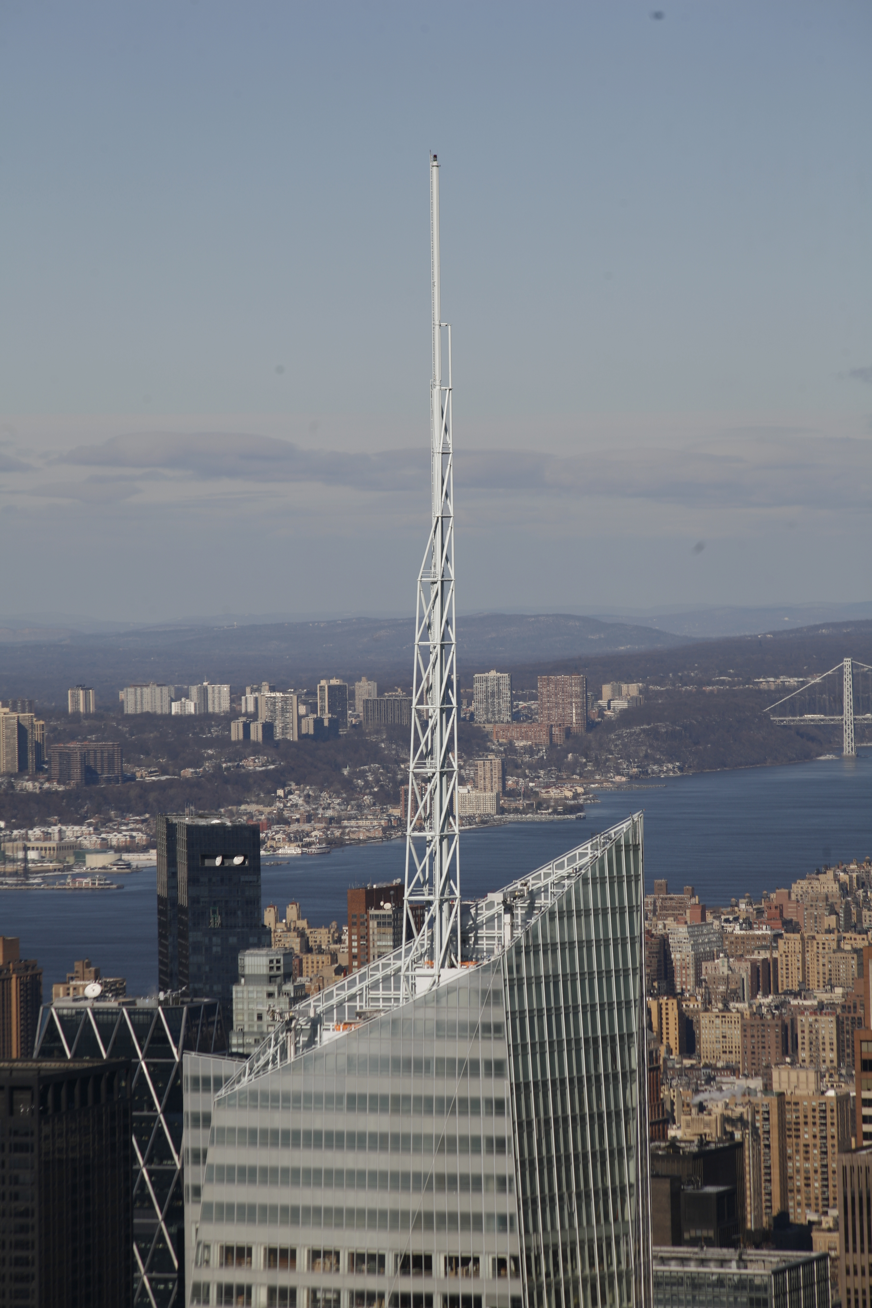 Tthe Bank of America Tower (One Bryant Park) . It carries no antennas. But it has a spire on top, like all the other biggest buildings in this part of town.